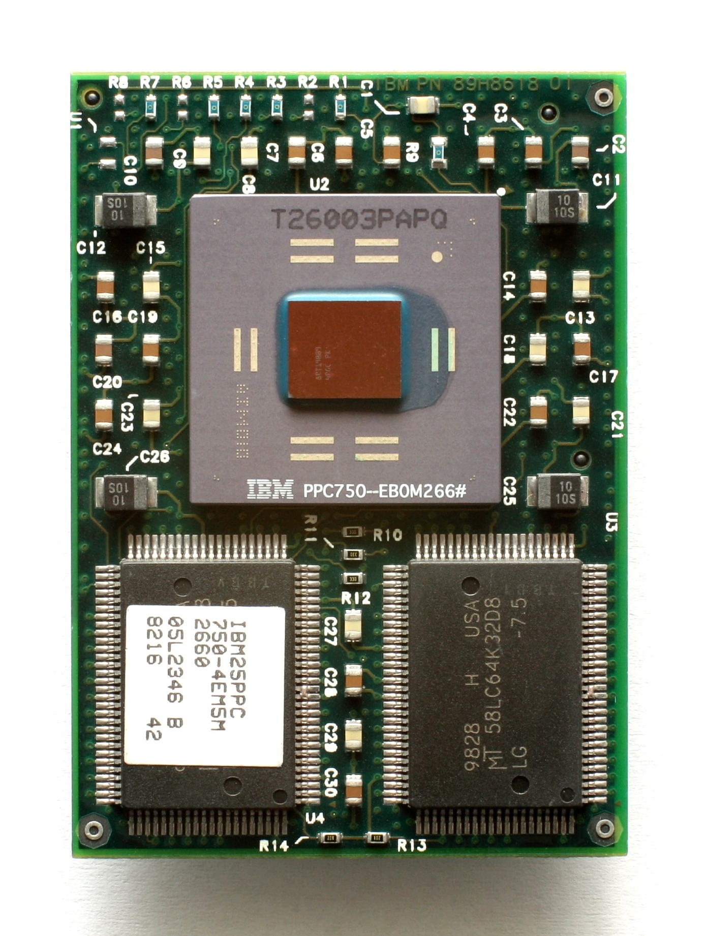 CPU IBM PowerPC 750.